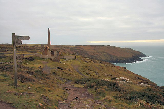 South West Coast Path at Botallack The restored chimney sets the scene for this industrial heritage site.